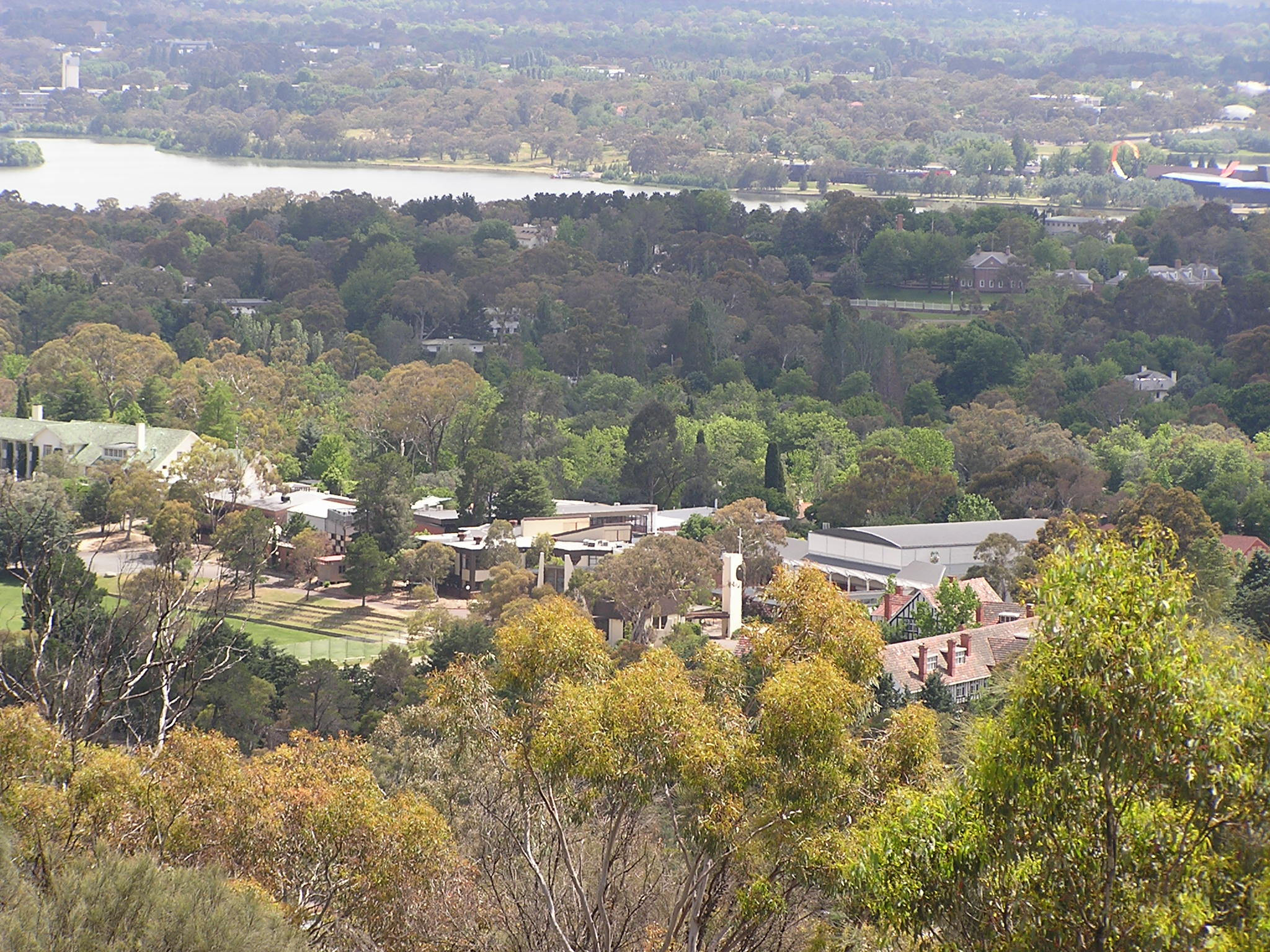 The suburb of Deakin, Australian Capital Territory looking across the Canberra Girls' Grammar School to Yarralumla and Lake Burley Griffin